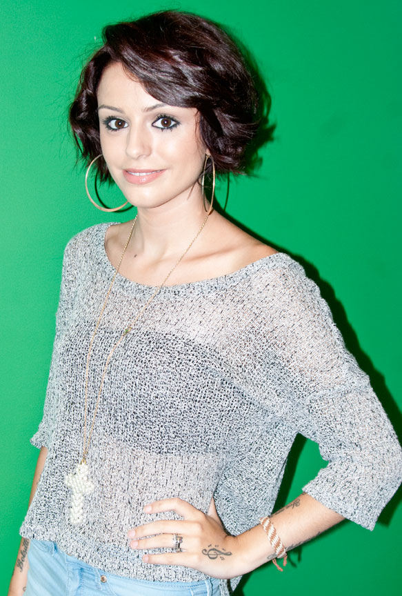 Cher Lloyd at Chicago KISS FM Radio Station. Photo by Adam Bielawski